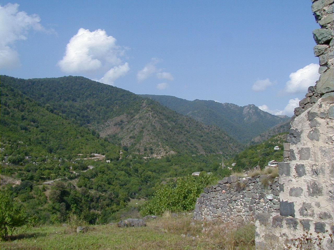 Akhtala